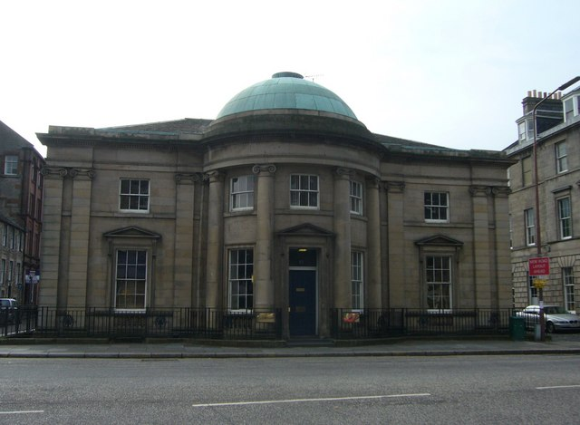 Old Leith Bank building, 25 Bernard Street, Edinburgh